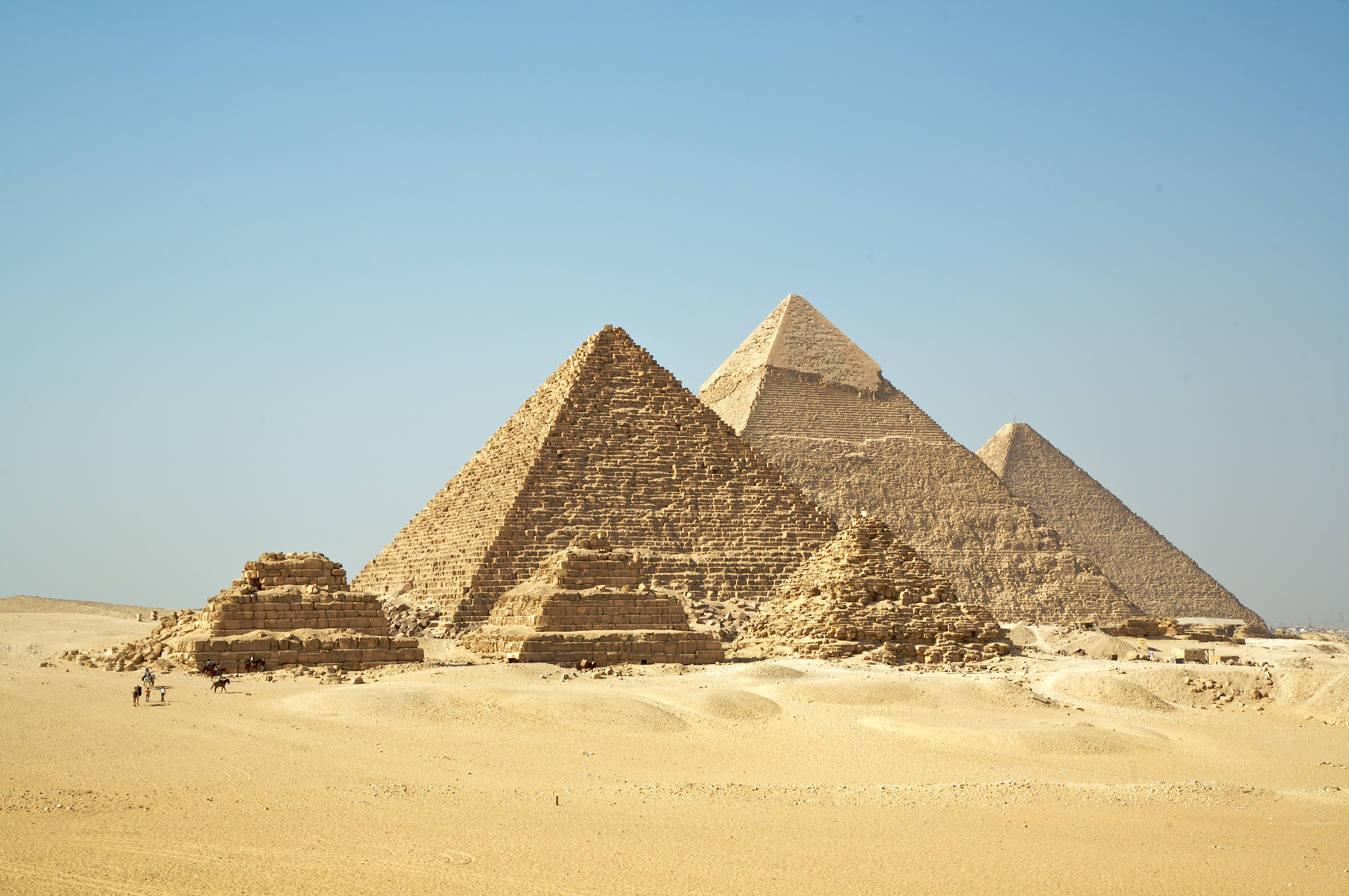 This Ancient Egyptian necropolis consists of the Pyramid of Khufu (known as the Great Pyramid and the Pyramid of Cheops; coordinates 29°58′31.3″N, 31°07′52.7″E), the somewhat smaller Pyramid of Khafre (or Chephren; coordinates 29°58′33.72″N, 31°07′51.6″E), and the relatively modest-size Pyramid of Menkaure (or Mykerinus; coordinates 29°58′19.8″N, 31°07′43.4″E), along with a number of smaller satellite edifices, known as "queens" pyramids, causeways and valley pyramids, and most noticeably the Great Sphinx. Current consensus among Egyptologists is that the head of the Great Sphinx is that of Khafre. Associated with these royal monuments are the tombs of high officials and much later burials and monuments (from the New Kingdom onwards), signifying the reverence to those buried in the necropolis.